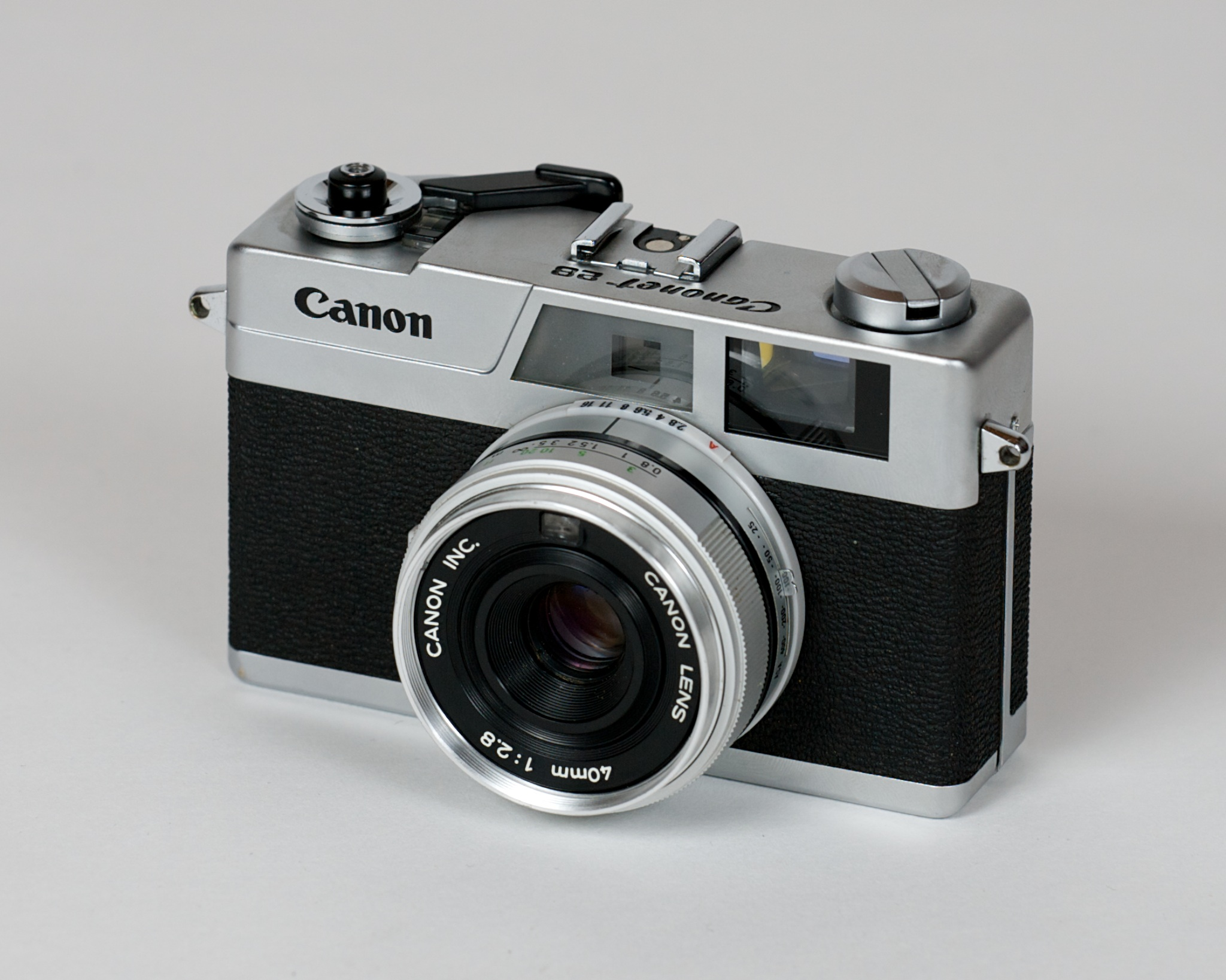 New Canon Canonet 28 35 mm Rangefinder camera. Front view.